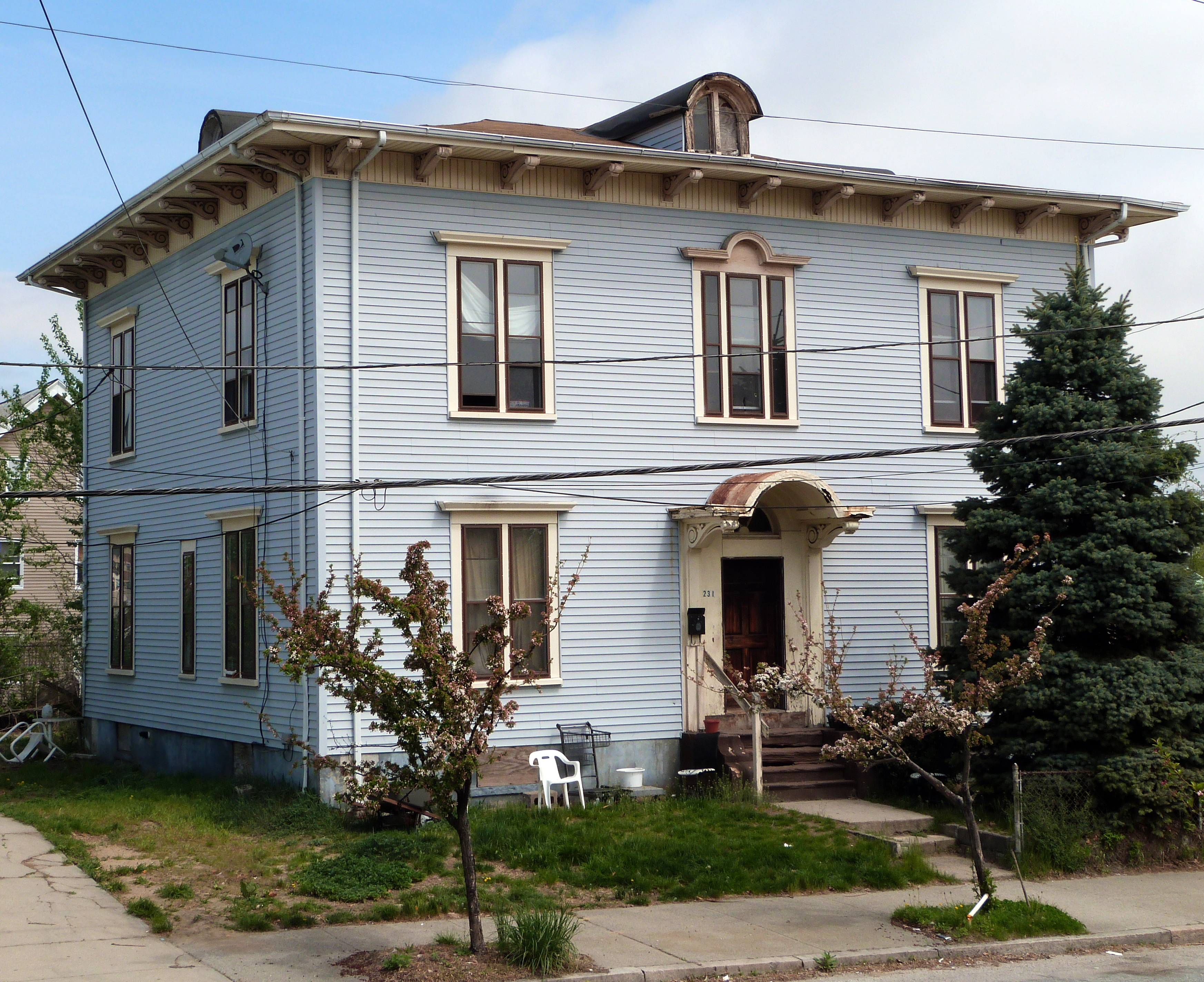 The historic William C. Rhodes House (built ca. 1860), located at 231 Rhodes Street in Providence, Rhode Island, United States, is listed as a contributing resource in the Rhodes Street Historic District. The historic district is listed on the US National Register of Historic Places.